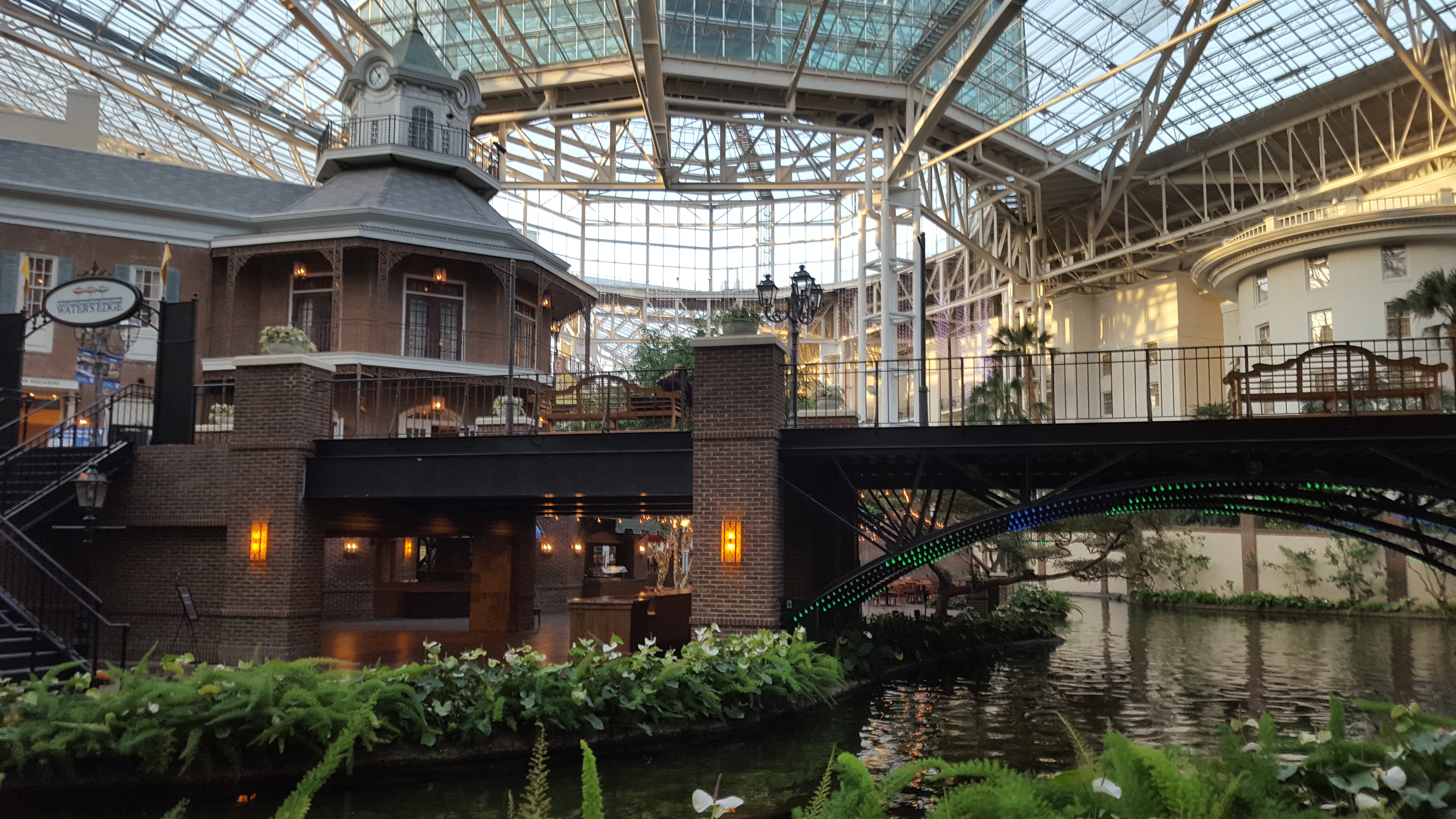 Delta Atrium at the Gaylord Opryland